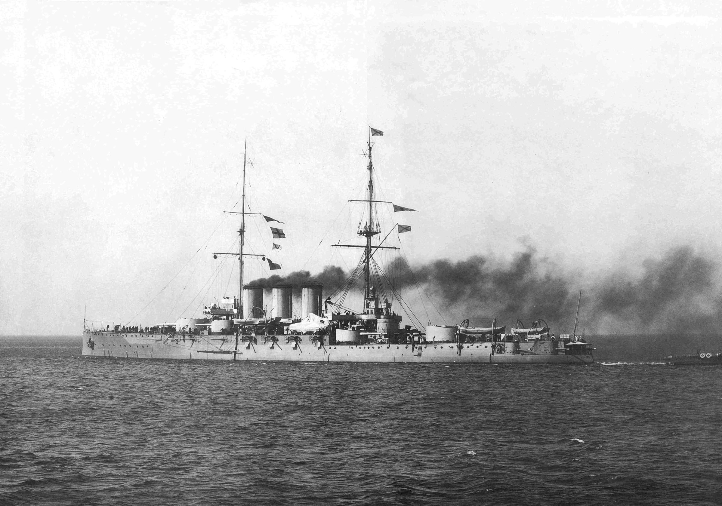 Imperial Russian cruiser Ryurik, 1912.